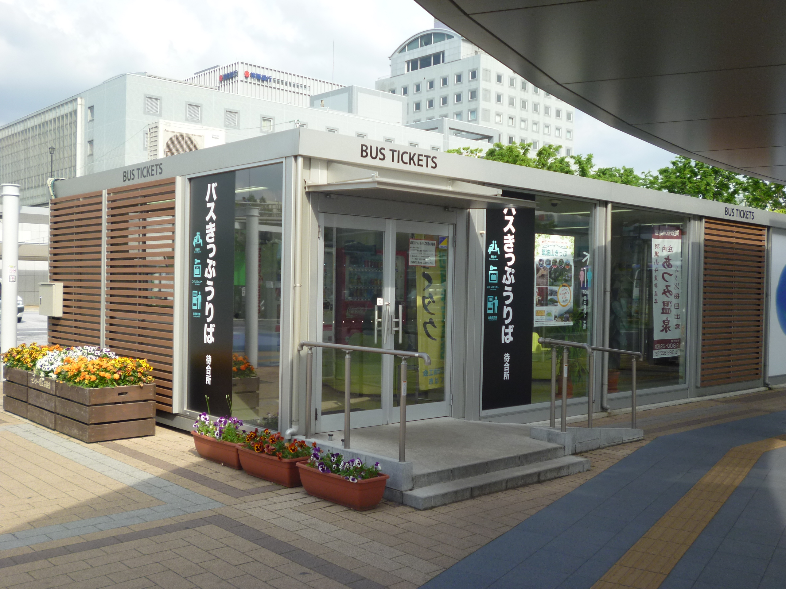 Waiting room and ticket office in Tsukuba Center